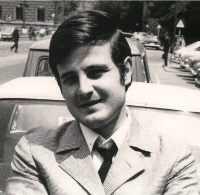 Jiri Staidl